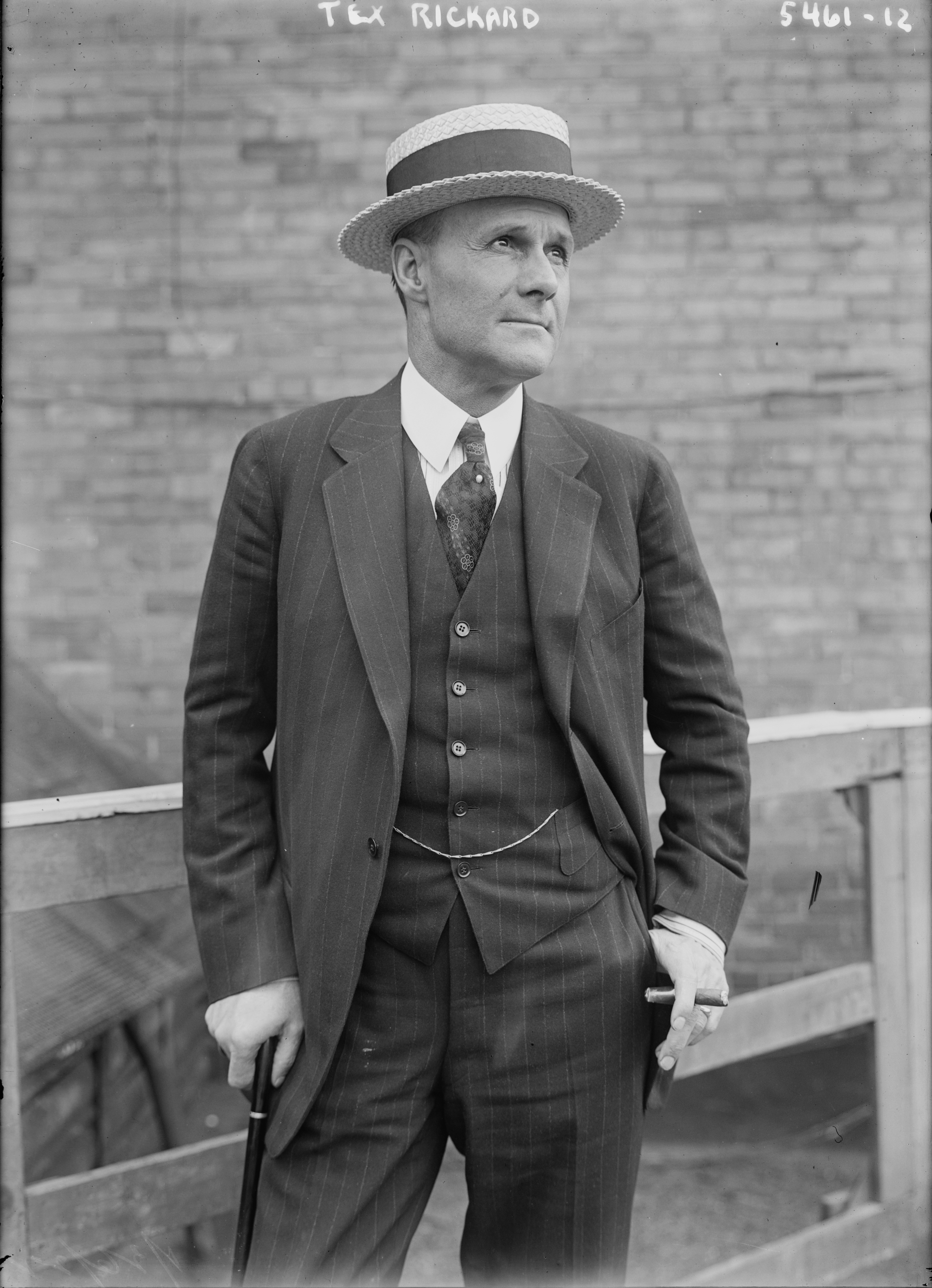 Tex Rickard, American boxing promoter and founder of the NHL's New York Rangers.